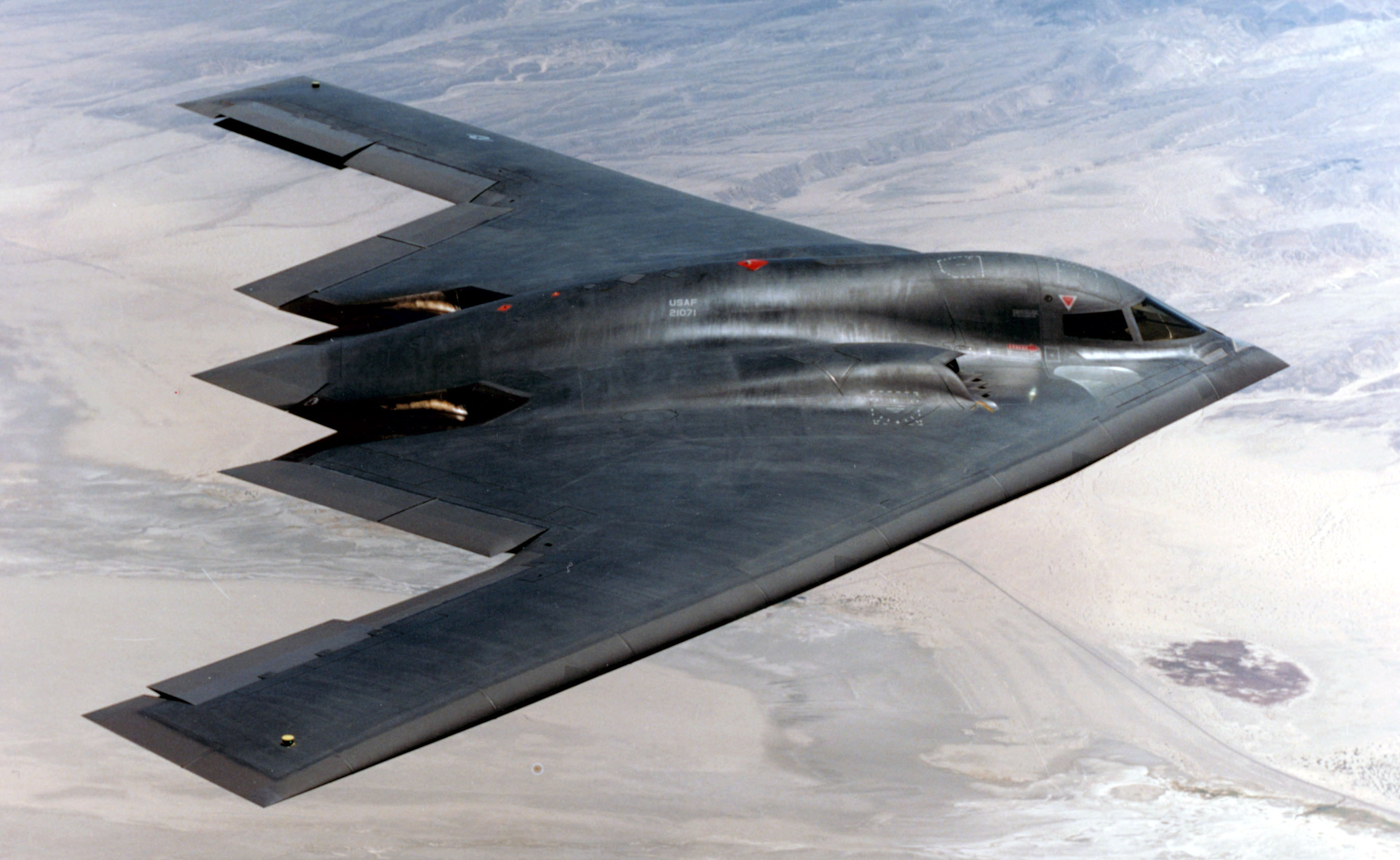 A U.S. Air Force B-2 Spirit bomber. The B-2 Spirit is a multi-role bomber capable of delivering both conventional and nuclear munitions. A dramatic leap forward in technology, the bomber represents a major milestone in the U.S. bomber modernization program. The B-2 brings massive firepower to bear, in a short time, anywhere on the globe through previously impenetrable defenses.